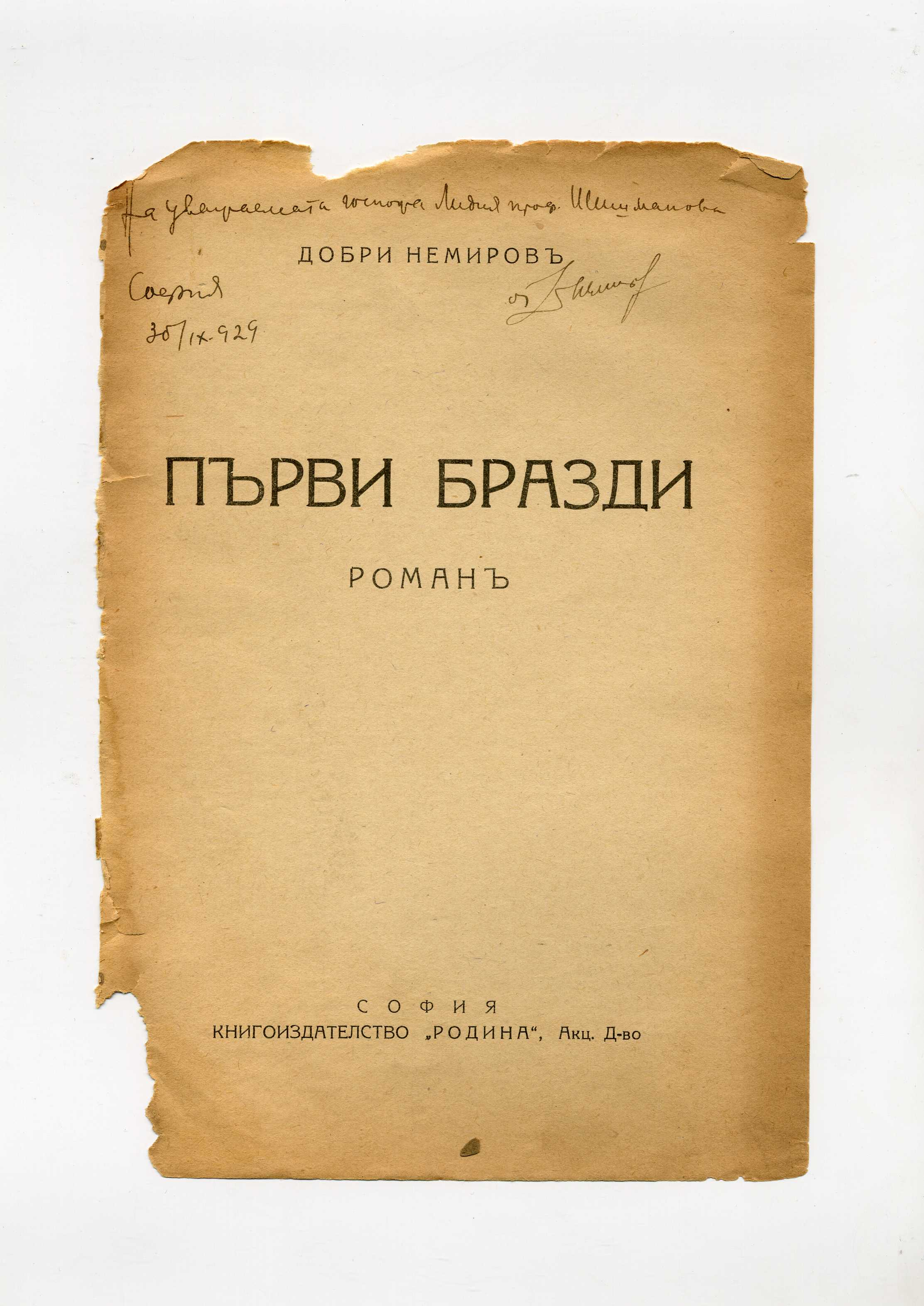 Scanned first page of a copy of the novel "First furrows" with a dedication and signature from its author, the Bulgarian writer Dobri Nemirov, to his colleague Lidia Shishmanova